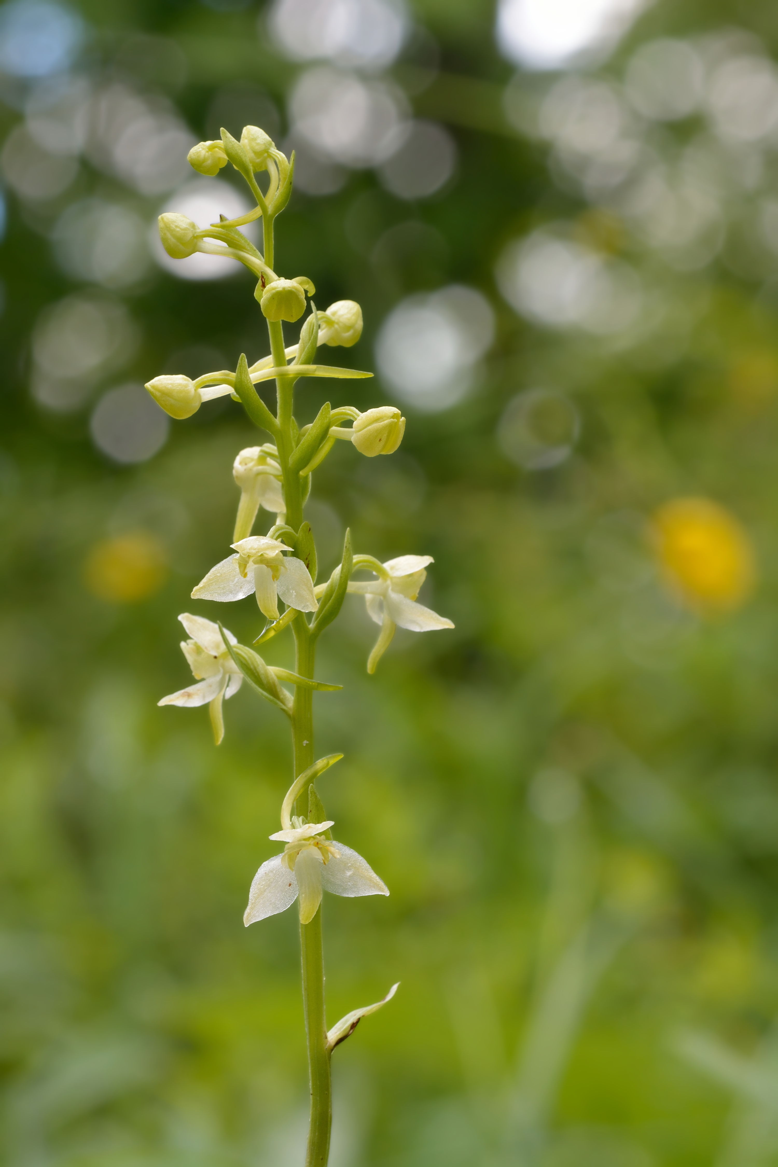 Greater Butterfly-orchid (Platanthera chlorantha). Alvar forest, Northwestern Estonia.